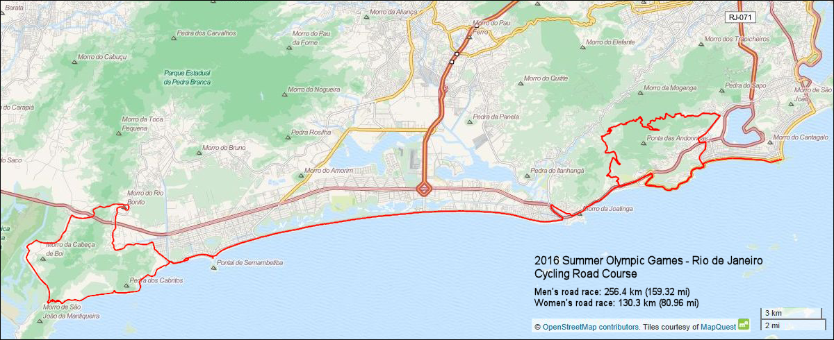 Rio de Janeiro 2016 Summer Olympics Cycling - Road Course Map